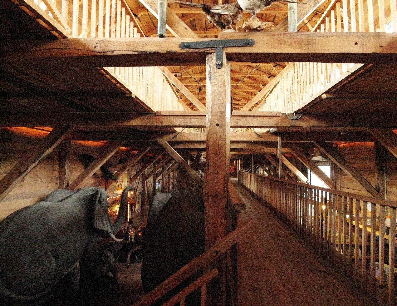 Johan's Ark interior